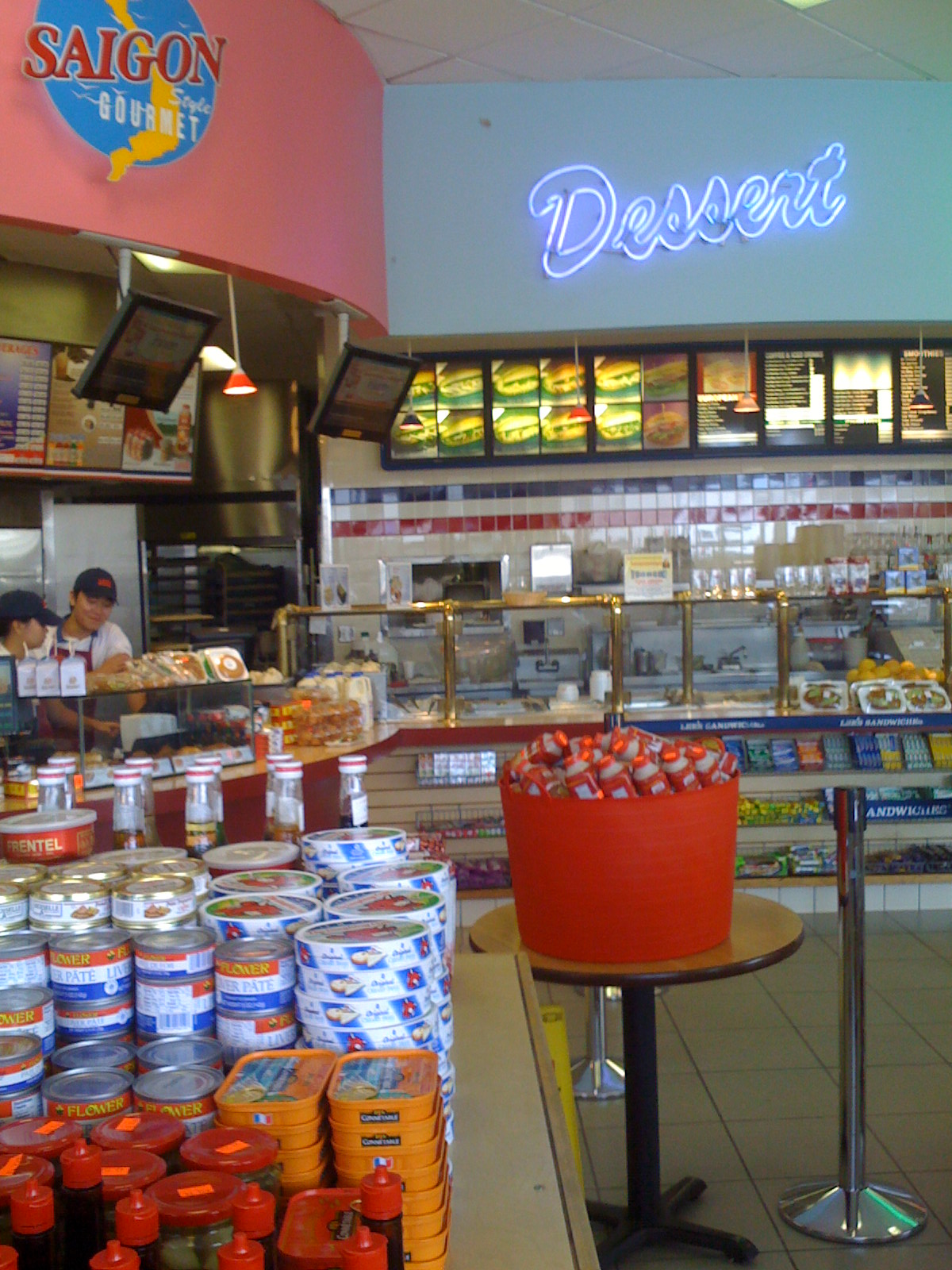 Interior of Lee's Sandwiches interior, Westminsters, CA.